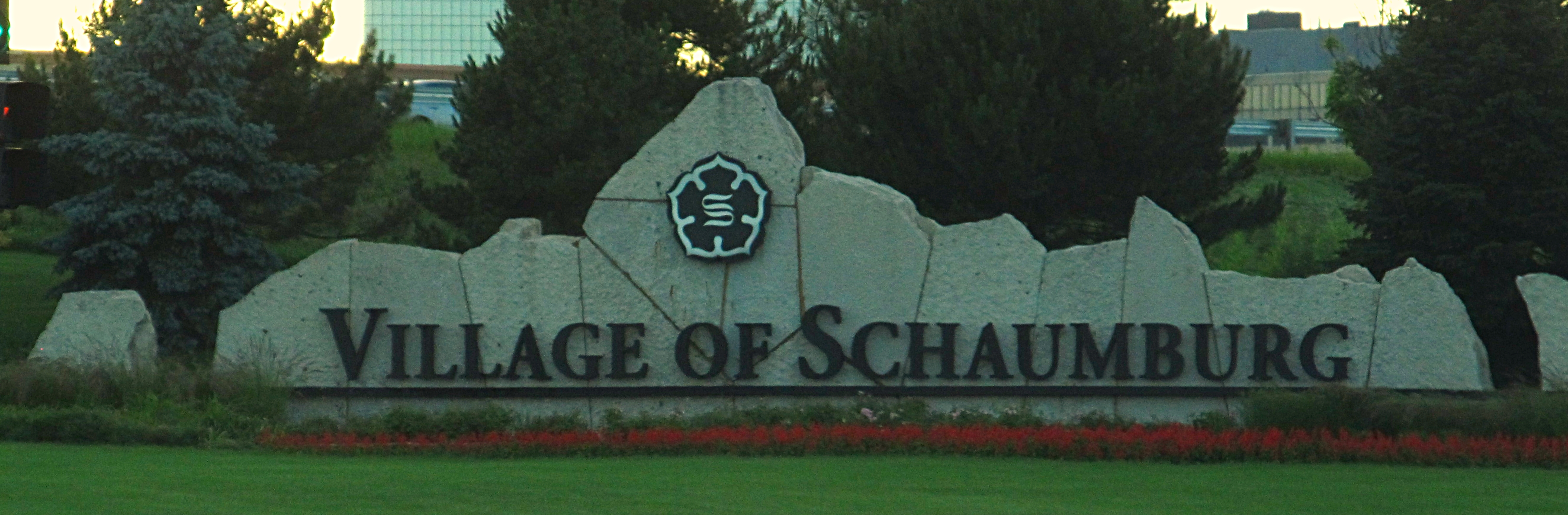 sign for the Village of Schaumburg